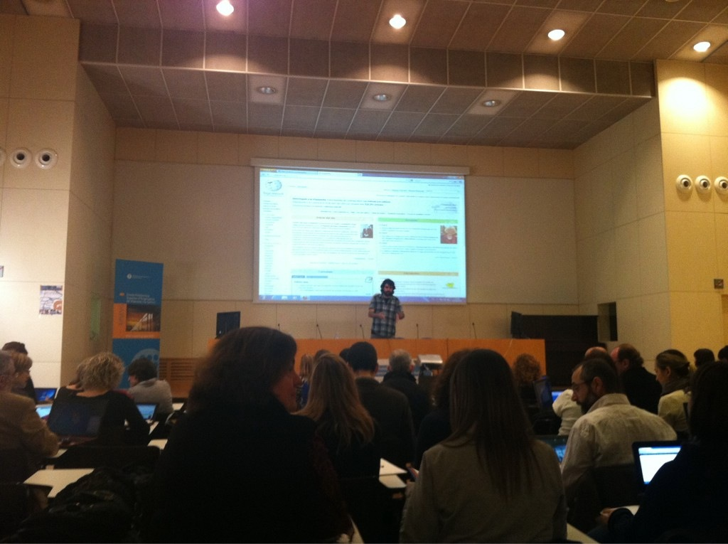 2nd Wikipedia workshop held at Museu Víctor Balaguer, in Catalonia, and Focused to museum professionals and educators. It took place on April 17, 2012 and was presented by User:Kippelboy and User:Barcelona